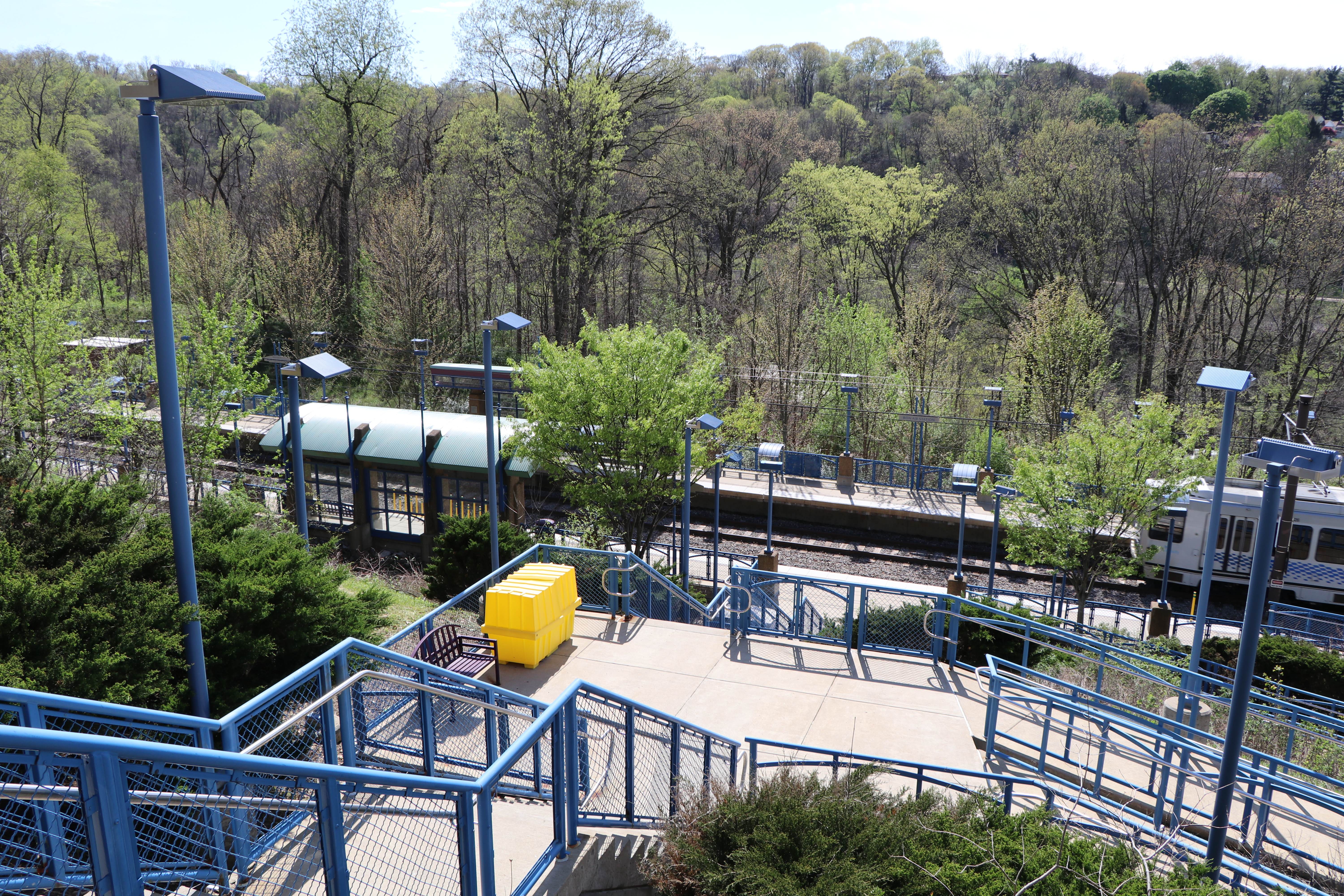 Bon Air station on the Blue Line, Pittsburgh, PA. View from the station entrance.